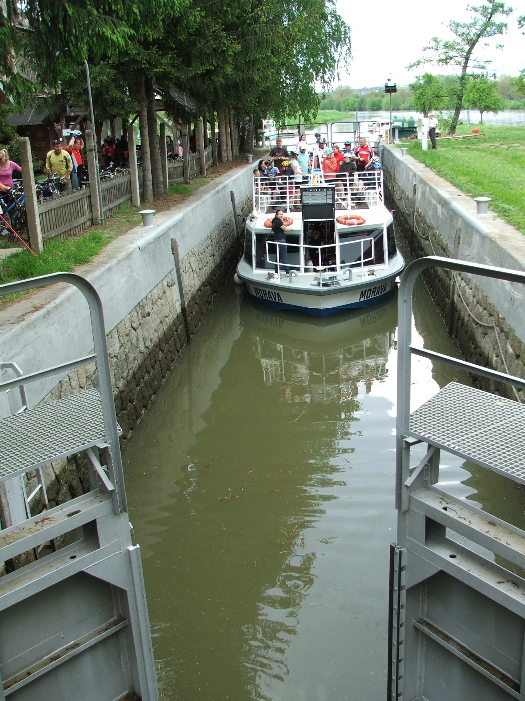 Baťa canal - navigation lock Spytihněv